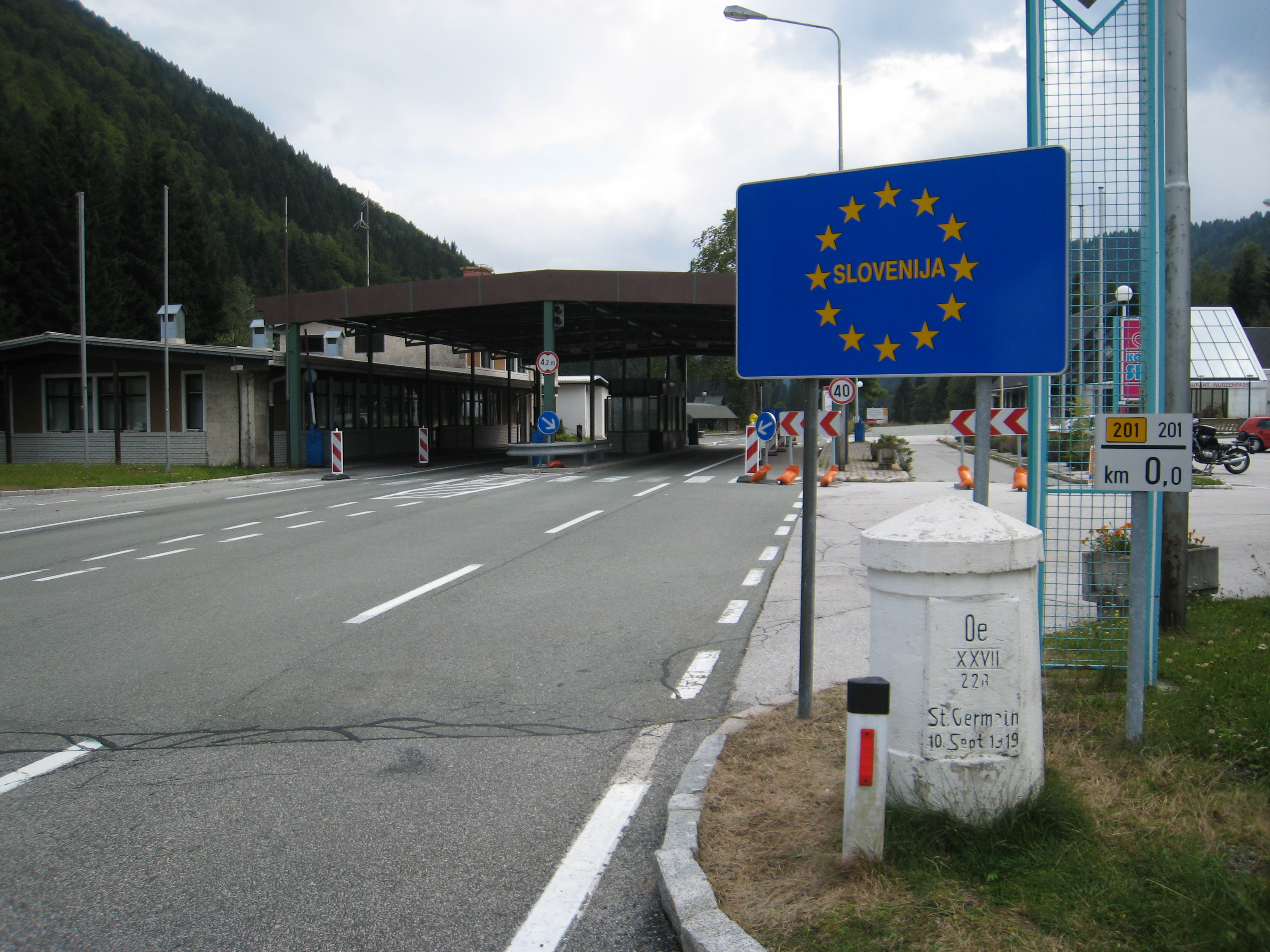 The Slovenian sign and border post at the Korensko Sedlo. The post was non-operational at the time this photo was taken, the Schengen agreement having come into force in 2007.